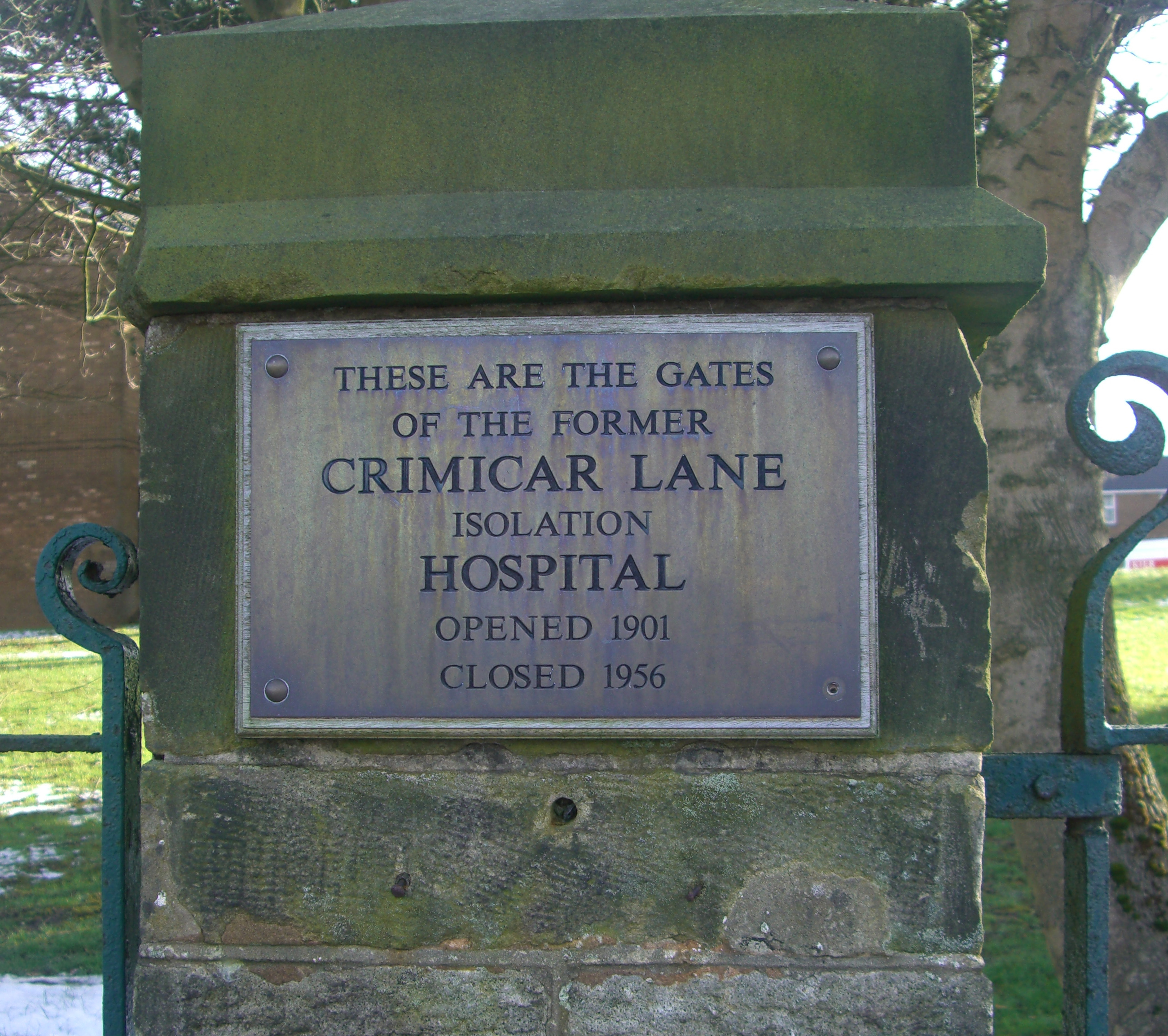 A plaque marking the site of the demolished Crimicar Lane Hospital in Sheffield, England.